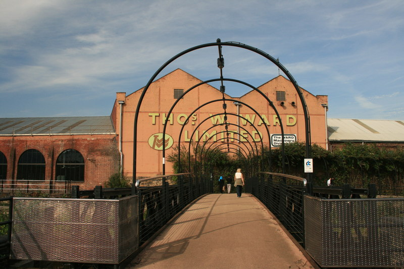 The Bailey BridgeErected here in 2006 to carry the Five Weirs Walk over the River Don between Effingham Road and Thomas W. Ward's Albion Works. The bridge dates from WWII and is thought to have been used in the D-Day landings Five Weirs Walk The Five Weirs Walk is a 7.5km footpath and cycleway which follows the River Don from Lady's Bridge in Sheffield city centre to Meadowhall Retail & Leisure Centre on the city's eastern boundary. This stretch of river incorporates five weirs which were built as part of Sheffield's industrial evolution, and which give the walk its name.